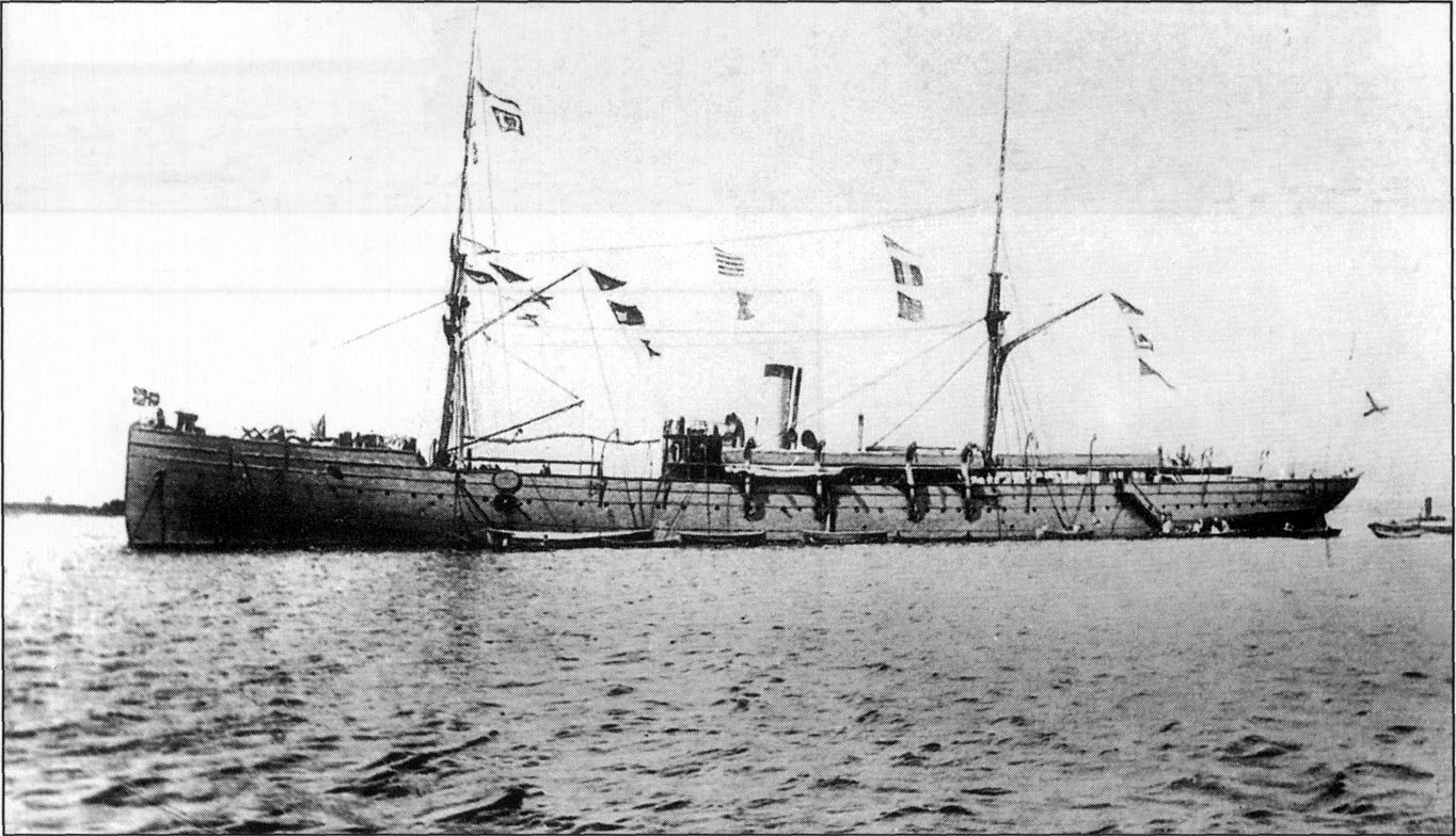 Imperial Russian cruiser Evropa (until 29 Apr. 1878 - State of California, 1885 - 1895 - Yaroslavl', 28 Dec. 1916 - blockship No.10).